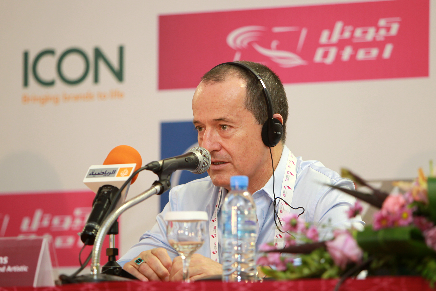 Australian David Atkins, who designed the Opening Ceremony of the Doha Arab Games, answers a question from the media. Picture by Mohan